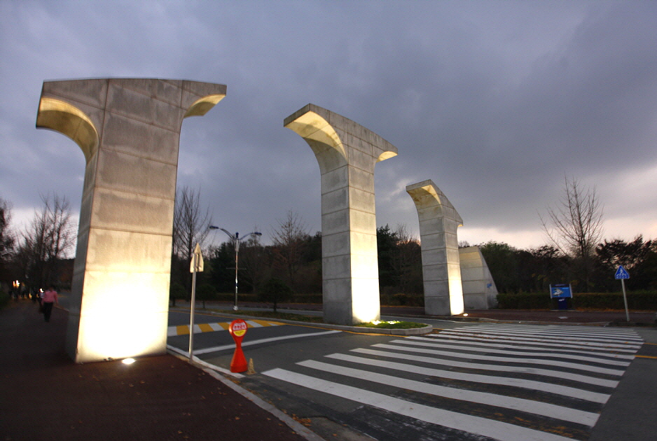 Chung-ang Univ.Deungyongmoon Maingate